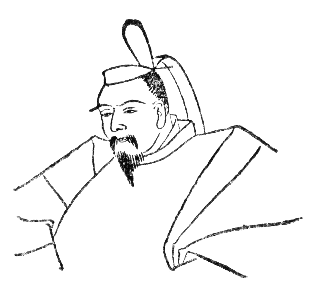 Portrait of Hōjō Tokiuji